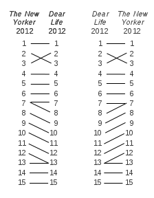 Alice Munro: "To Reach Japan" (2012 / 2012), section variants